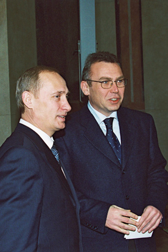 THE NATIONAL COUNCIL, VIENNA. President Putin with Alfred Gusenbauer, leader of the Social Democratic Party of Austria.